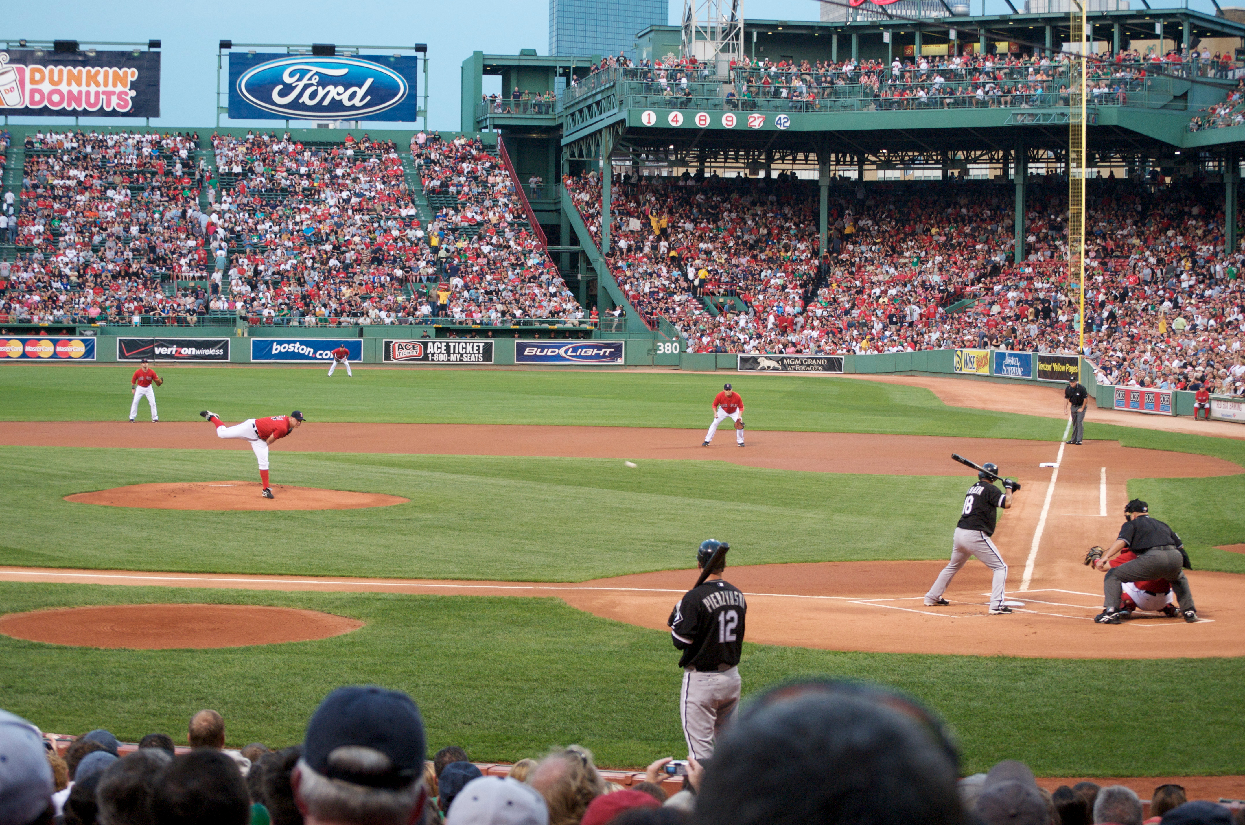 Michael Bowden's first MLB start, at Fenway Park